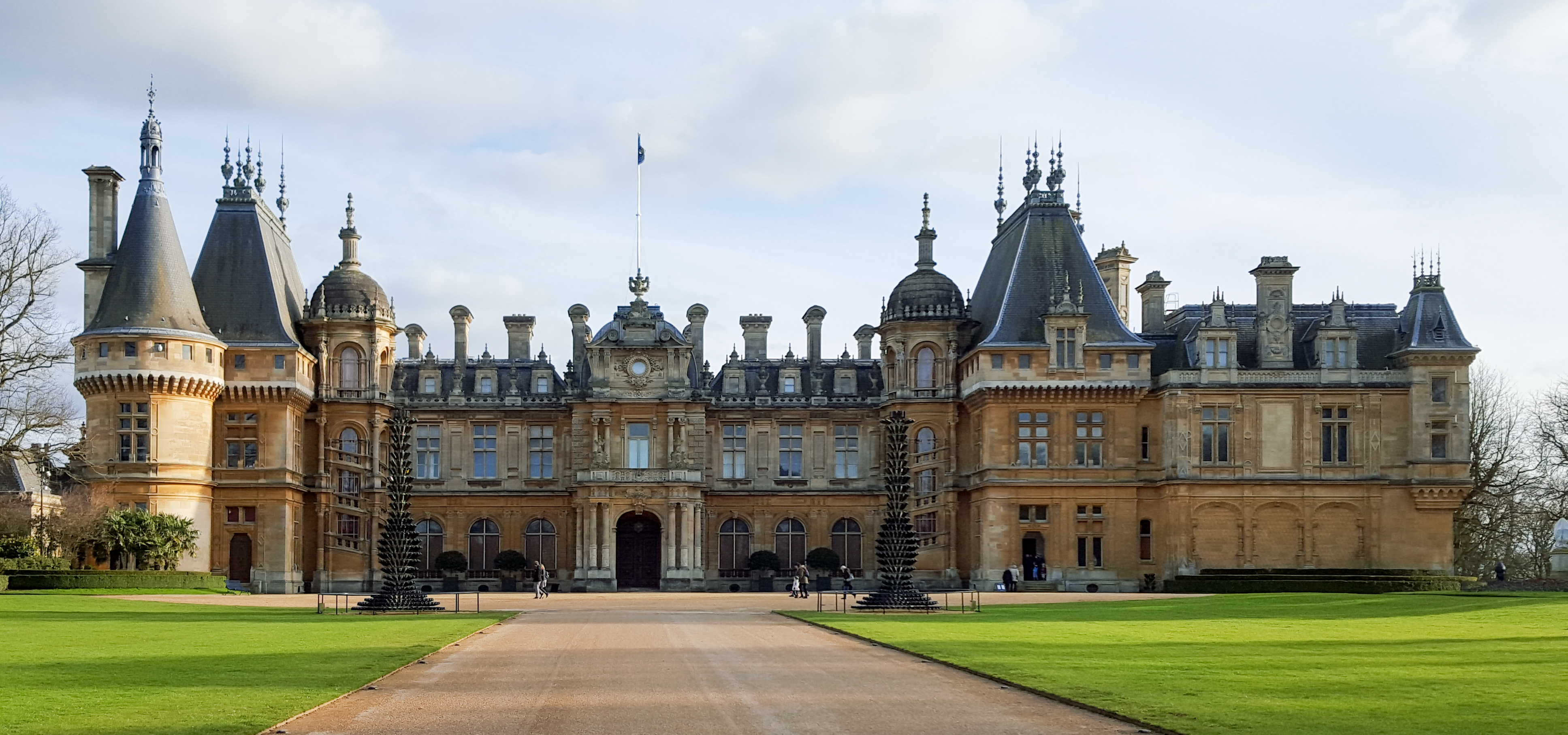 Waddesdon Manor from the north west. This is a Grade I listed building in England.